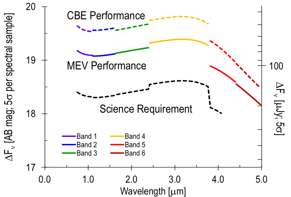 NASA space telescope SPHEREx The scientifically required point source sensitivity has large margin over the estimated instrument performance. We show above the science requirement (black dashed line) and the MEV (solid colored curve) and CBE (dashed colored curve) performance. Note the Bands 5 and 6 sensitivities is shown rebinned to R=40 spectral resolving power. Bands 5 and 5 easily meet the 9 AB mag (100σ) required for the Ices Investigation.